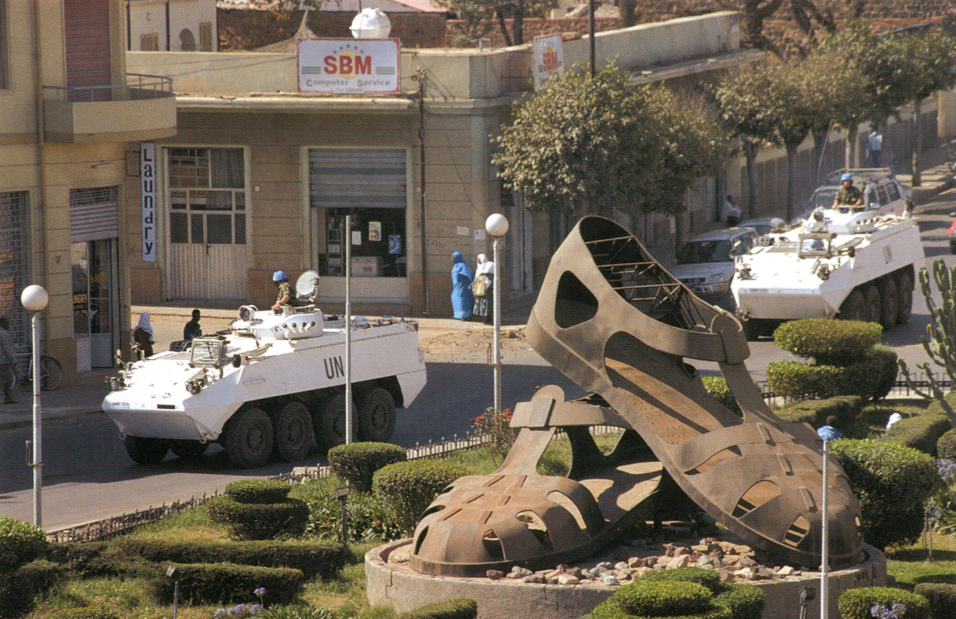 Sandals Monument in Asmara